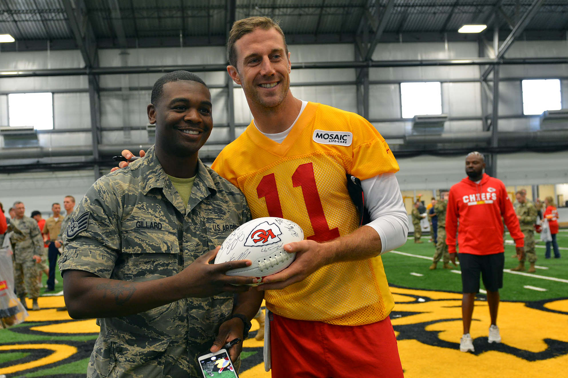 U.S. Air Force Staff Sgt. Montai Gillard, U.S. Strategic Command Intelligence Directorate space analyst, poses for a photo with Kansas City Chiefs quarterback Alex Smith after the final practice of the team’s training camp at Missouri Western State University in St. Joseph, Mo., Aug. 16, 2017. The Chiefs hosted their fourth annual Military Appreciation Day during summer training camp, welcoming and honoring more than 150 service members assigned to Offutt Air Force Base, Neb., and other local installations.